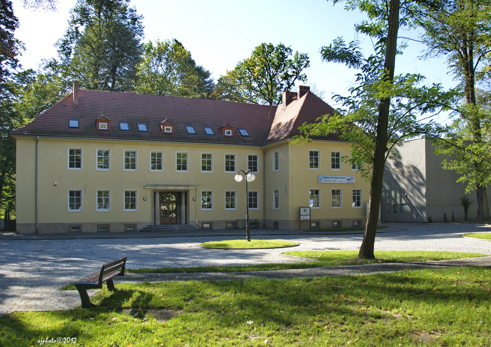 Dom Kultury Koźle